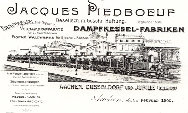 Advertising postcard of Piedboeuf boilerworks (year 1900)